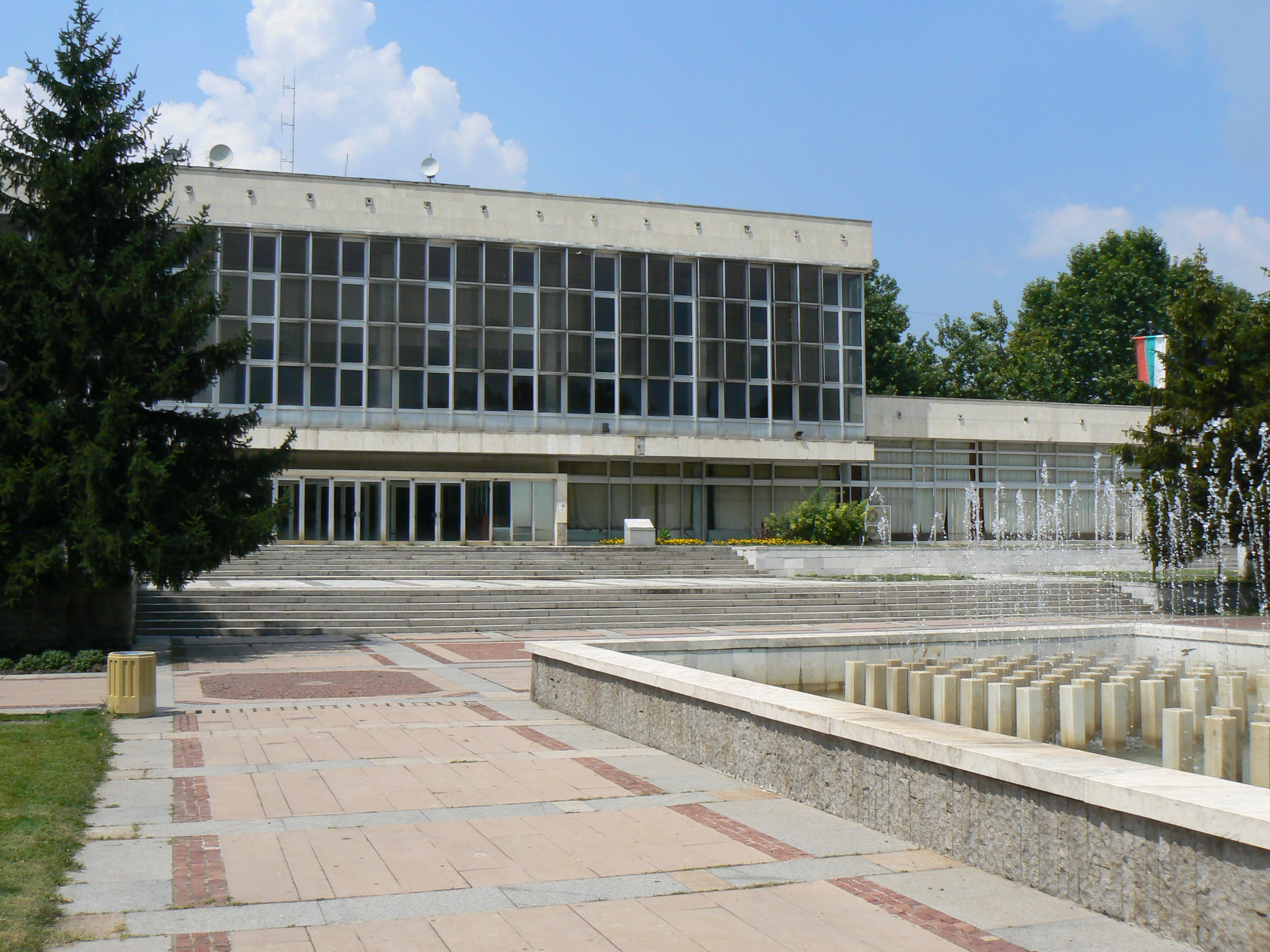 Theater & "D.P. Sivkov" Library on the right/ Community centre in Nova Zagora, Bulgaria